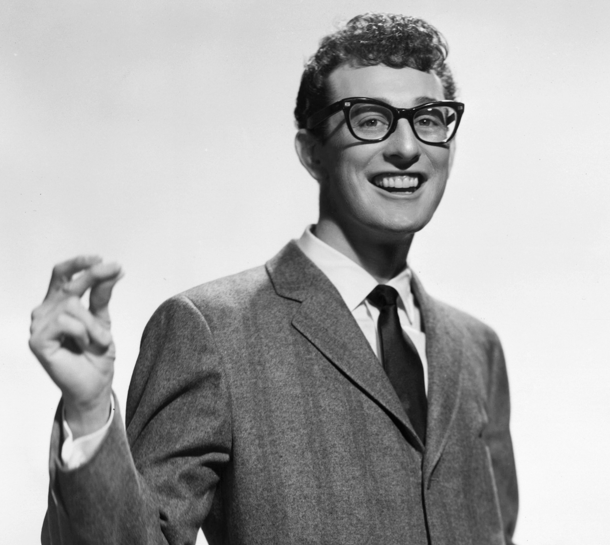 Buddy Holly publicity picture for Brunswick Records